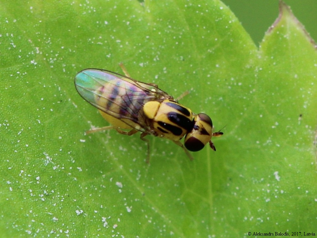 Chlorops pumilionis